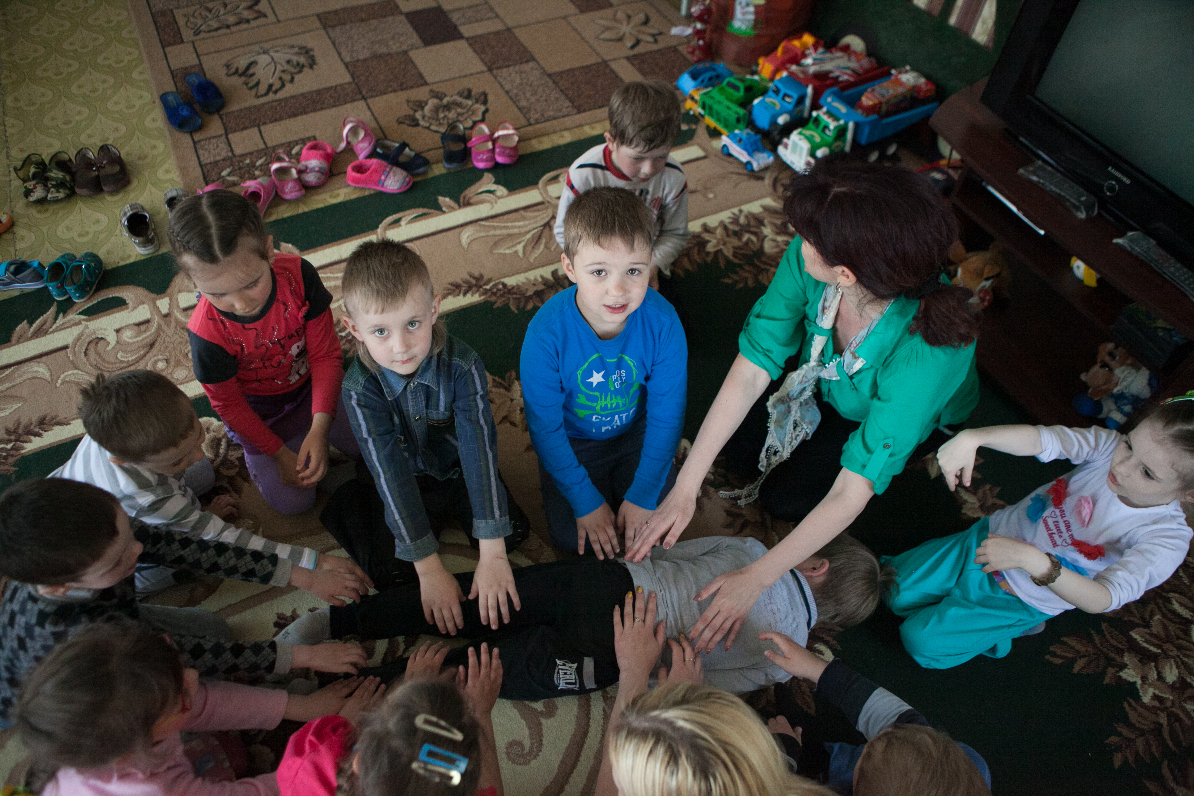 Children playing during the session with the psychologist. Group and play therapy helps children to address distress and adapt back to normal life. Copyright: UNICEF Ukraine/2015/Alexey Filippov